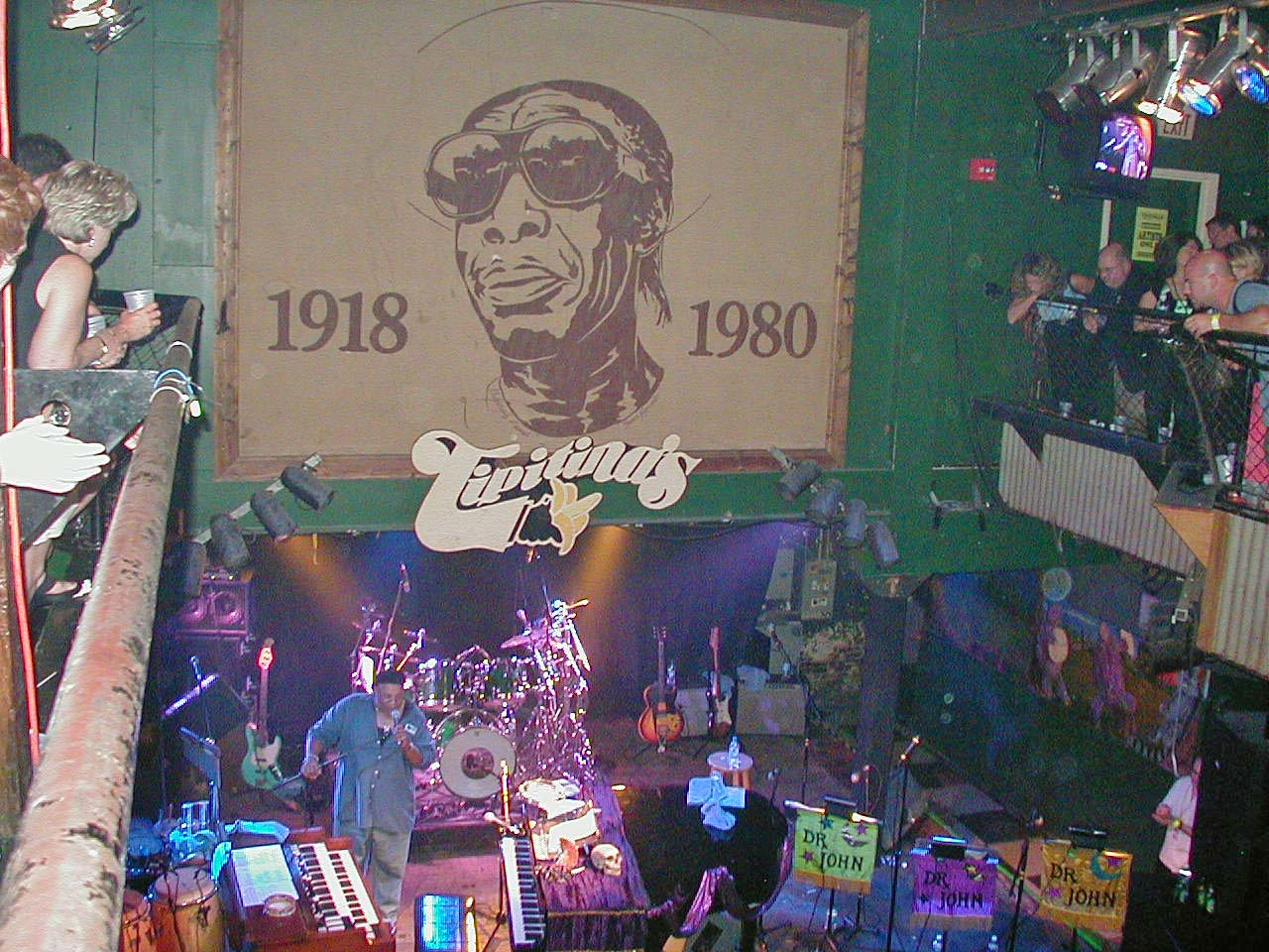 Inside the famous club Tipitina's in New Orleans. A shot from upstairs. The stage is set for Dr. John